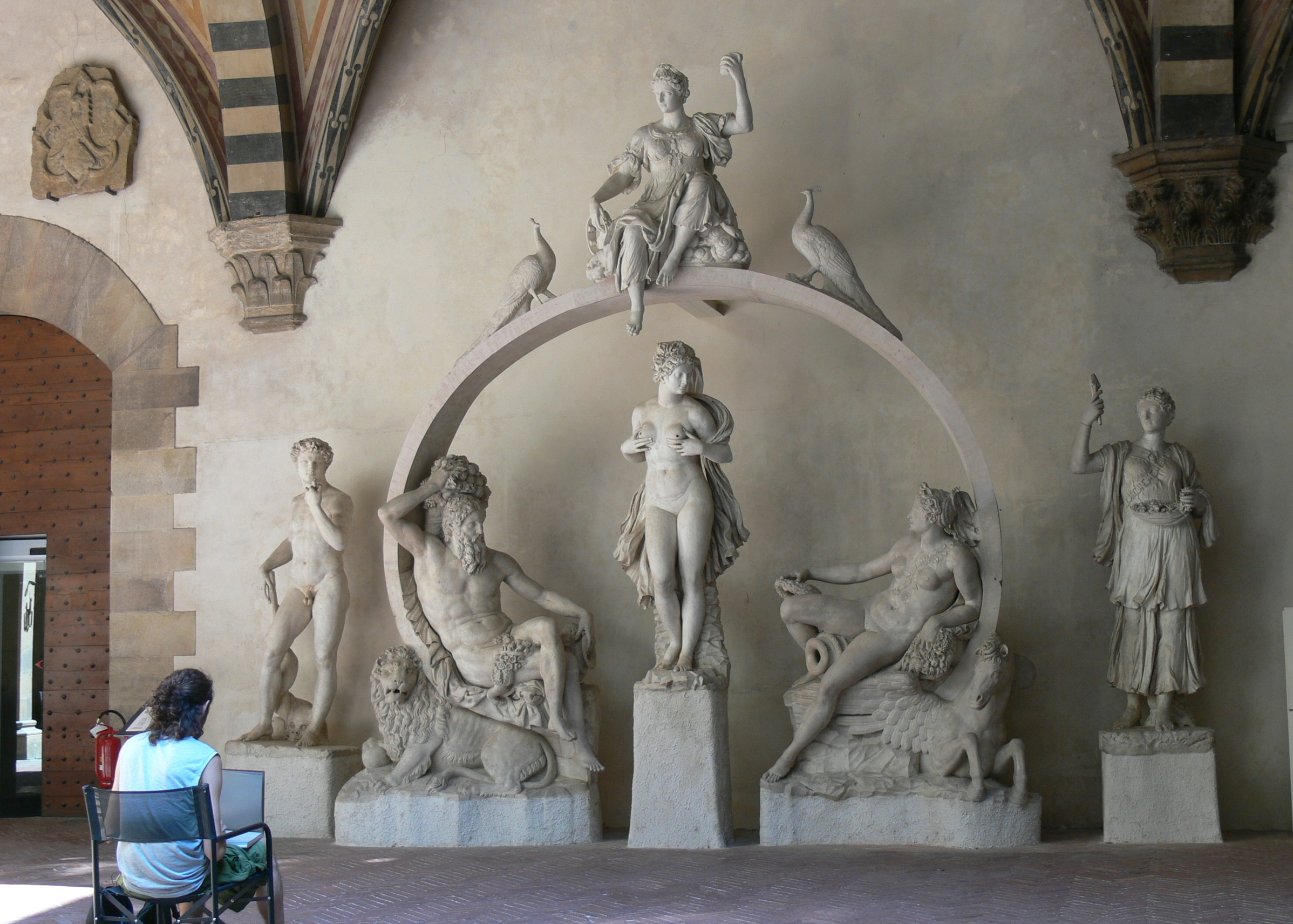 Museo del Bargello ( Florence ). Fountain ( 1556-1561 ) by Bartolomeo Ammanati, originally designed for the Sala Grande in the Palazzo Vecchio.